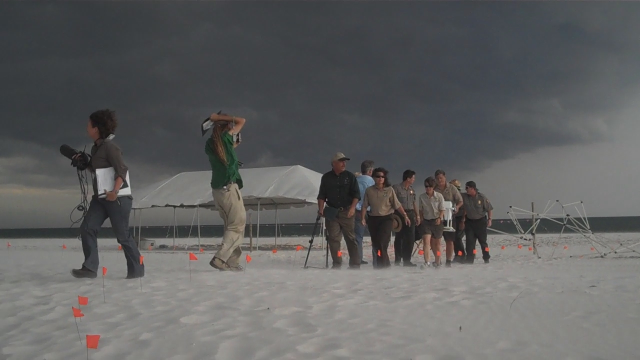 July 23, 2010 - Gulf Breeze, Florida. Biologists, National Park staff, and media evacuate the beach as a storm approaches. Don Imm, Acting Project Leader of the U.S. Fish and Wildlife Service Panama City, Florida, Ecological Services and Fisheries Resources Office, carries newly excavated Kemp 's ridley turtle eggs in a styrofoam box. Credit: Catherine J. Hibbard/USFWS